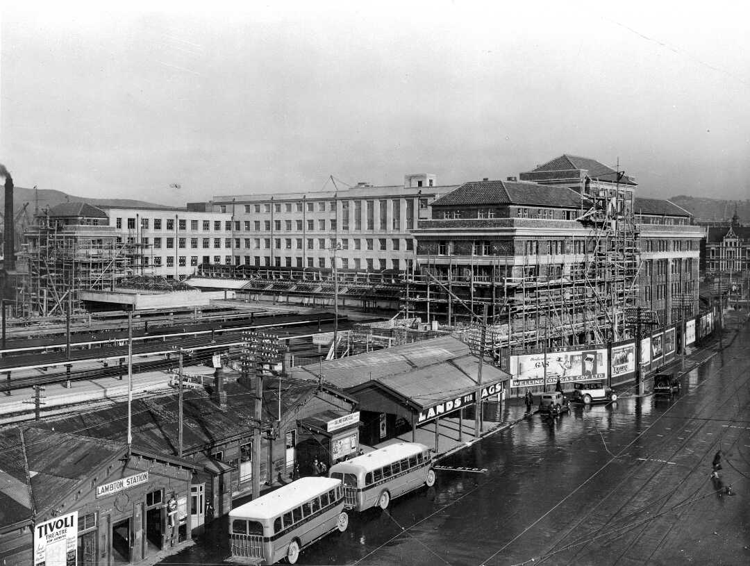 left front - Lambton railway station in Featherston Street about to be demolished far right - NZR HQ in Featherston Street, gable end facing Bunny Street centre - new Wellington railway station and NZR HQ opened June 1937